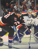 Picture of Alexei Yashin during a hockey game.